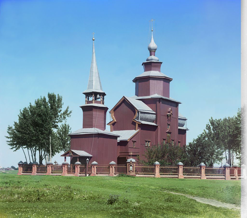 Church of St. John the Theologian on the Ishna in the environs of Rostov. Summer 1911.